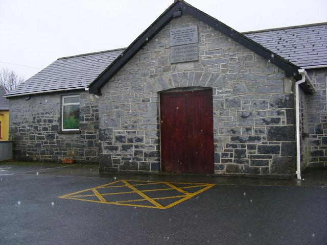 Williamstown National School